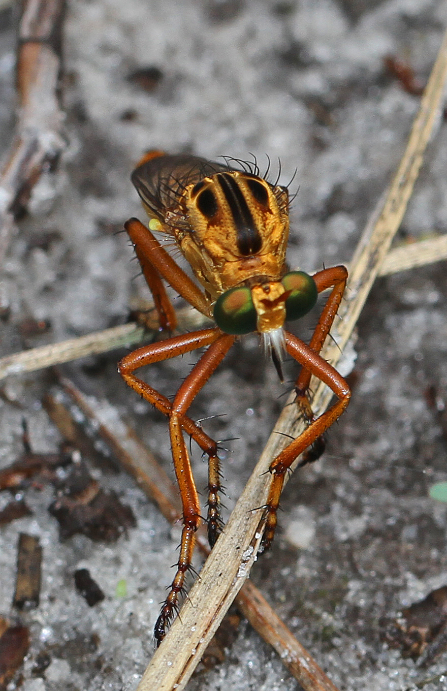 Hanging Thief - Diogmites properans, Okeefenokee Swamp National Wildlife Refuge, Folkston, Georgia.